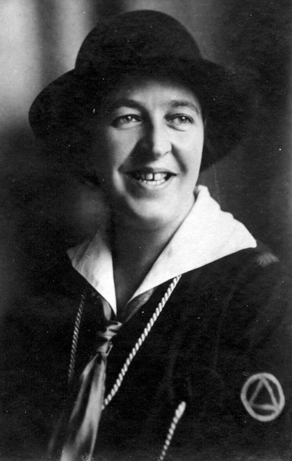 Corrie ten Boom in scouting uniform (around 1921). The triangle on her uniform refers to the name of the scouting group: "the triangle girls".